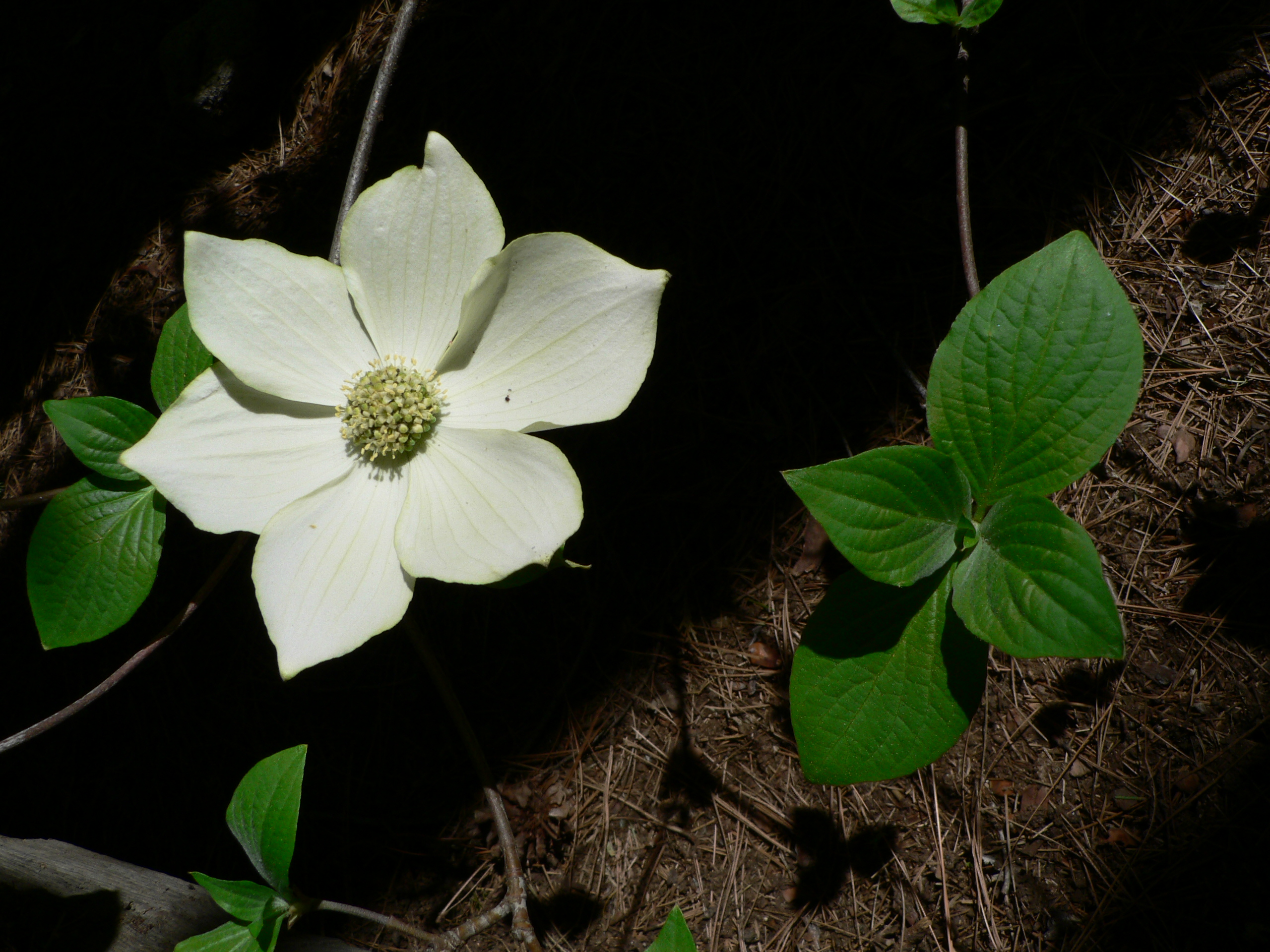 Pacific Dogwood